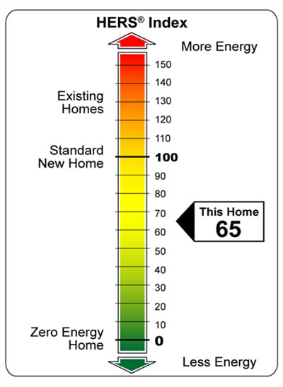 The RESNET Home Energy Rating System (HERS) Index is used to communicate the relative efficiency of a home to builders, developers, and consumers. The scale is set with 100 being equal to the efficiency of a standard new home, and 0 being a home that produces as much energy as it consumes.